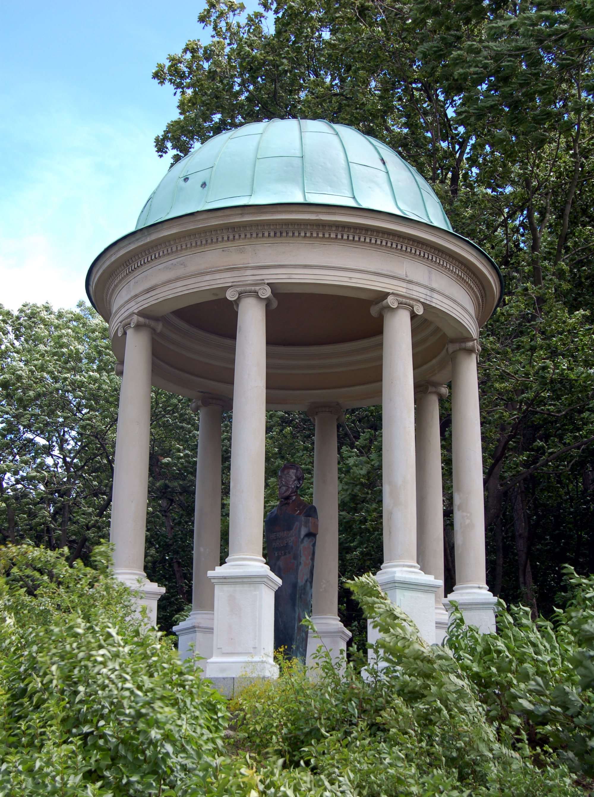 The monument for Hermann Krupp (1814-1879), the father of Arthur Krupp, at the slopes of Guglzipf in Berndorf, Lower Austria.